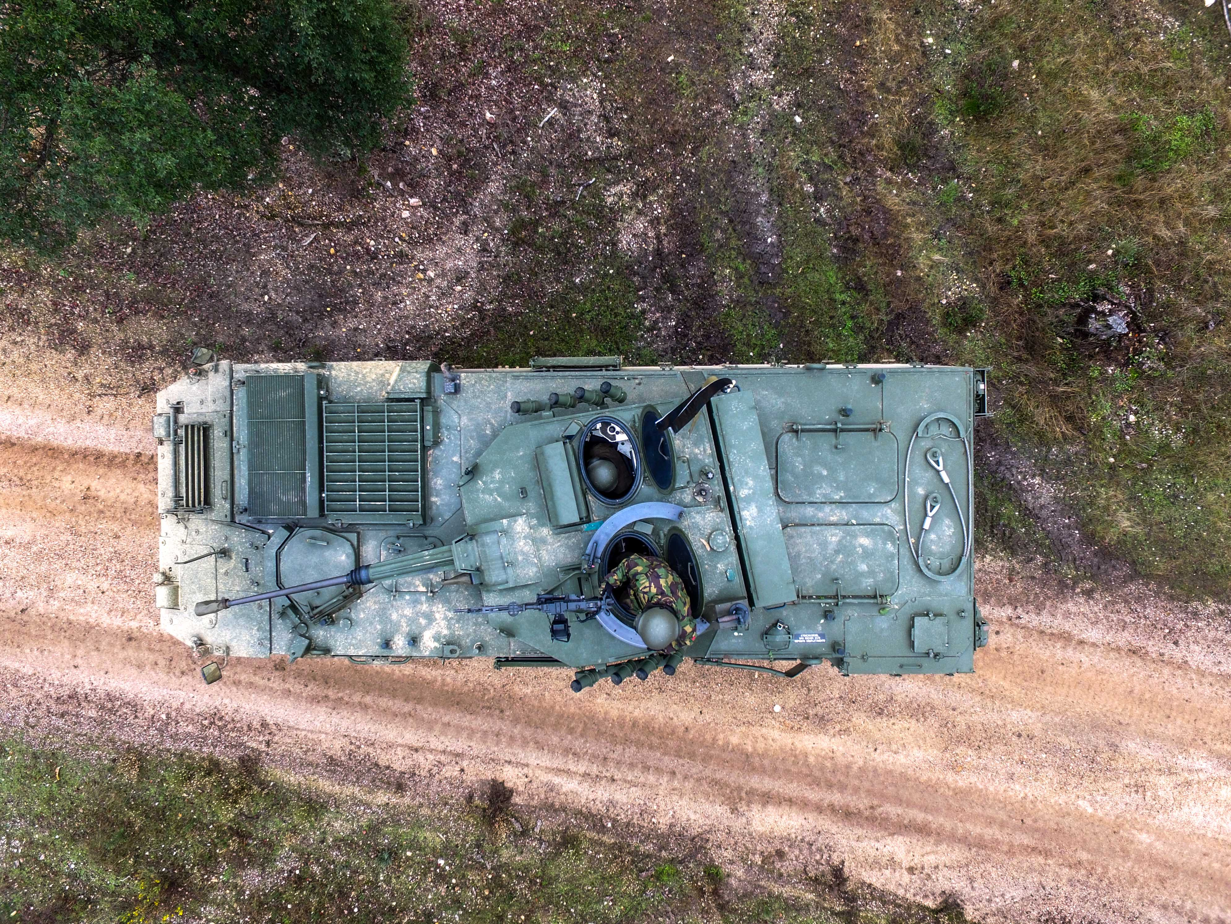 Portuguese Infantry Battalion from the Multinational Brigade conduct a deliberate attack with a G3 assault rifle and Pandur 8x8 vehicles on October 30, 2015 during NATO exercise Trident Juncture 15.